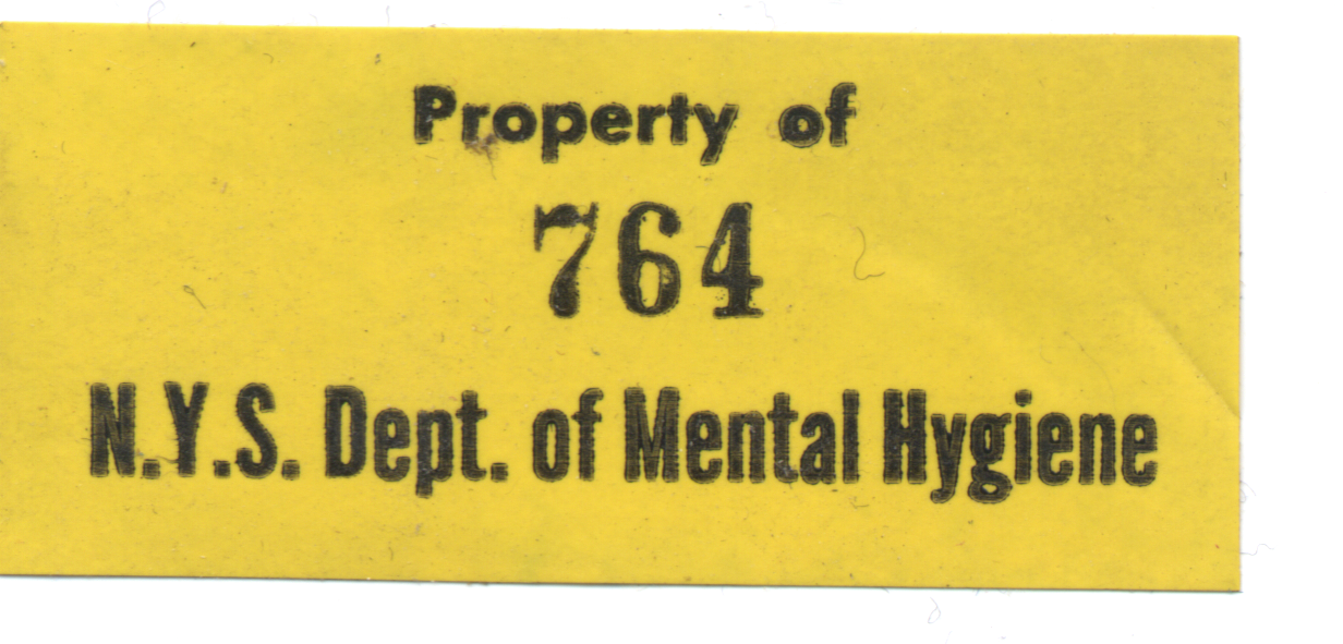 Label for 'Property of N.Y.S Dept. of Mental Hygiene'